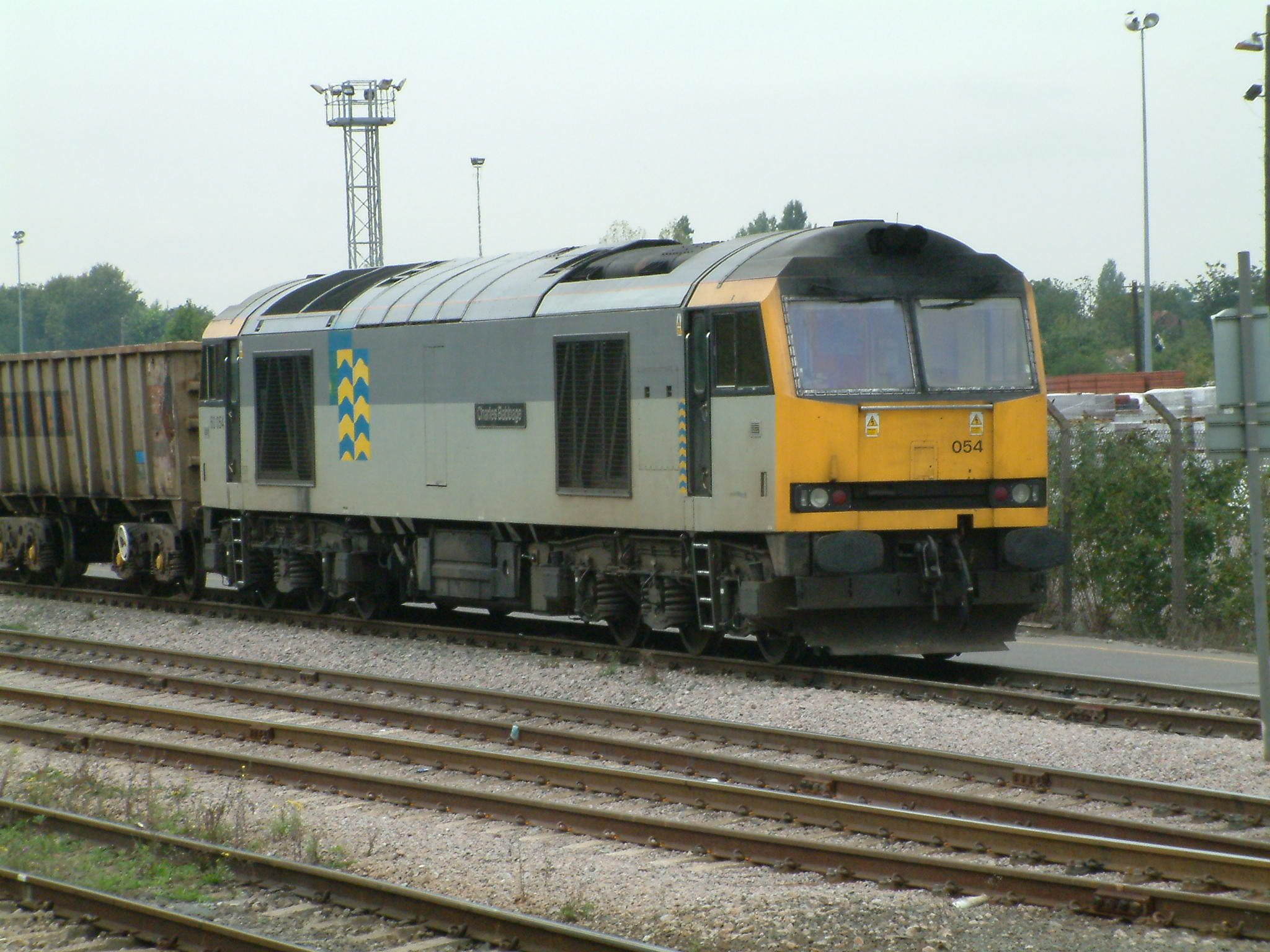 Locomotive 60054 at Acton Main Line yard